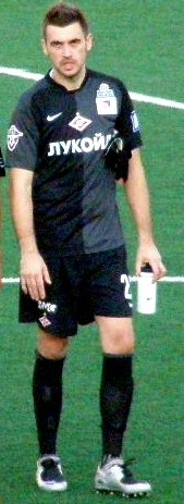 Stipe Pletikosa in action for FC Spartak Moscow